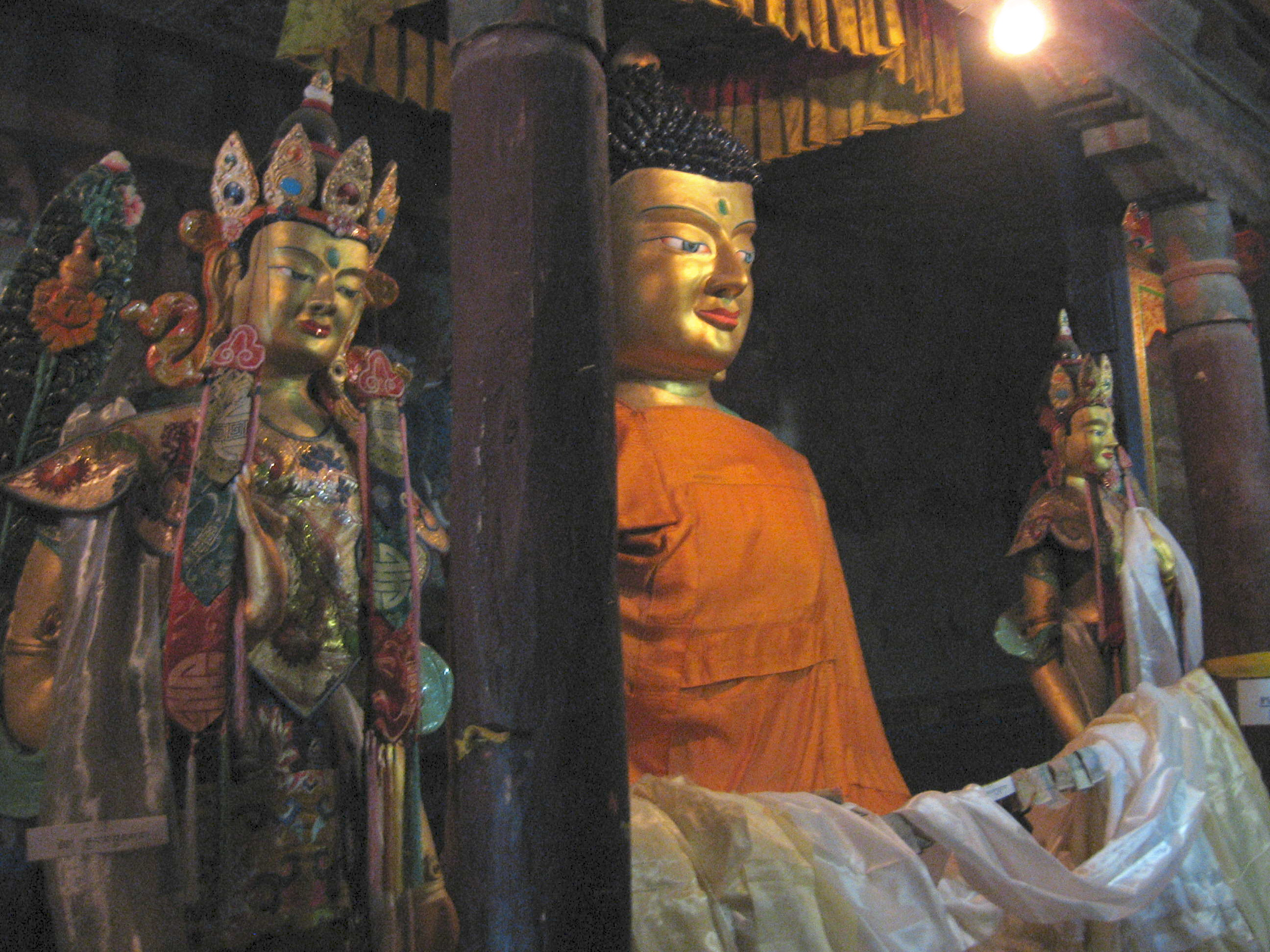 Thikse monastry courtyard, Shakyamuni